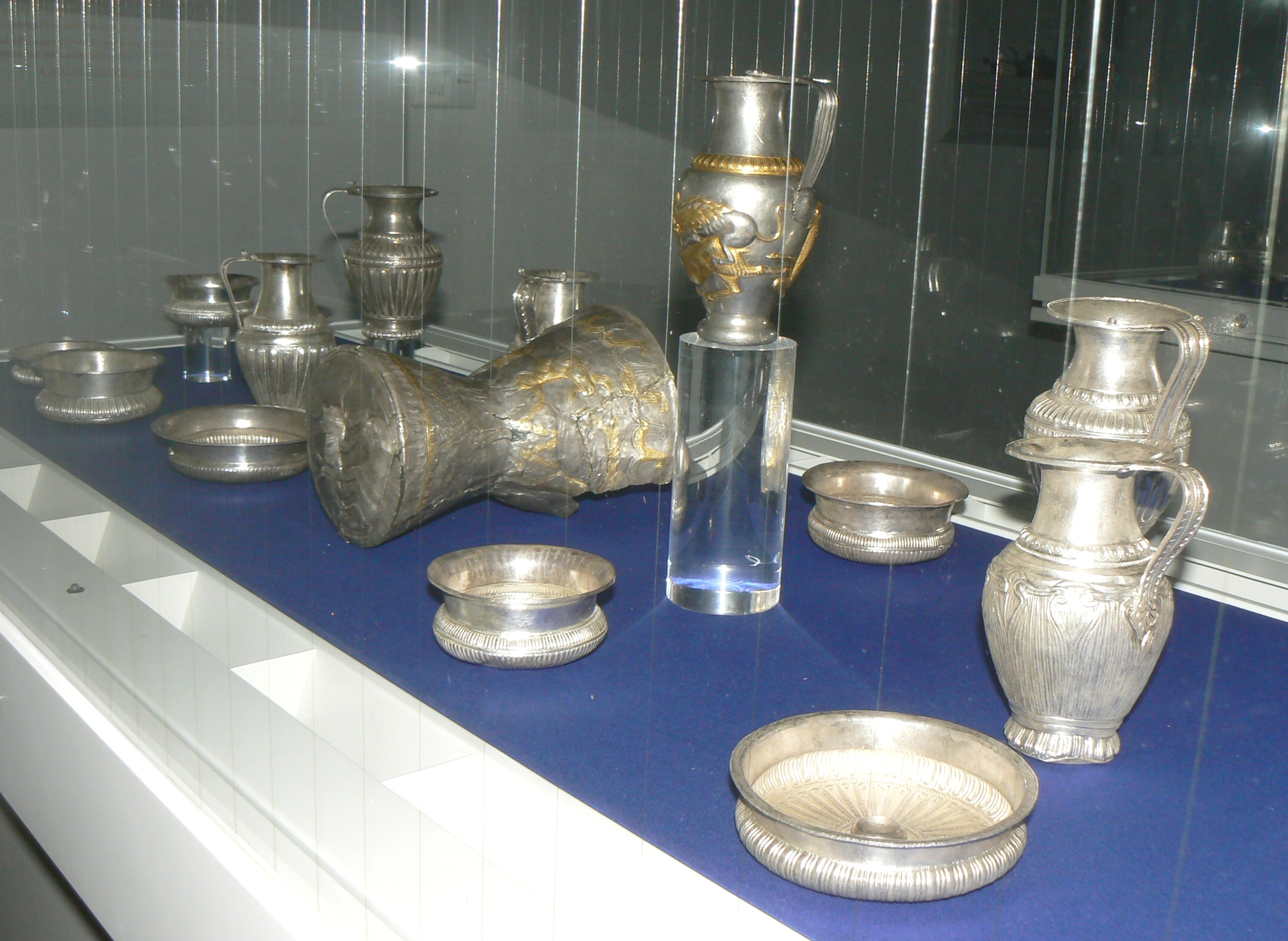 Vessels from the Rogozen treasure, exhibited in the Regional history museum and art gallery of Vratsa, Bulgaria